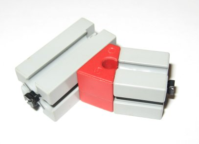 Fischertechnik connected bricks